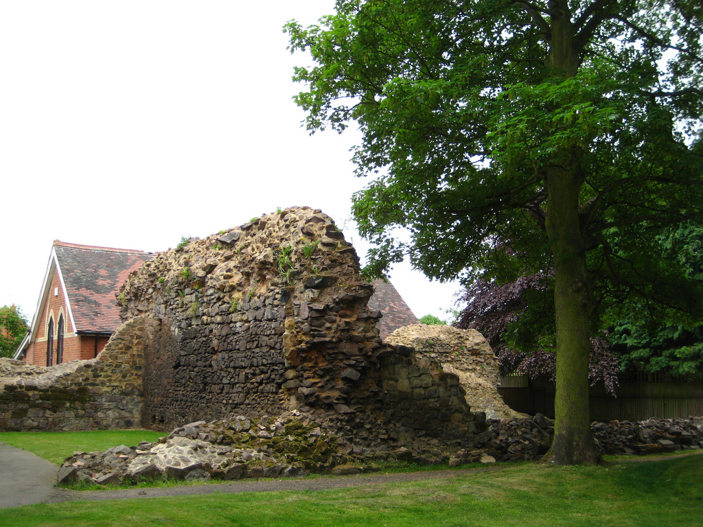 ruins of St Mary's Abbey Church in Nuneaton (Warwickshire, England).